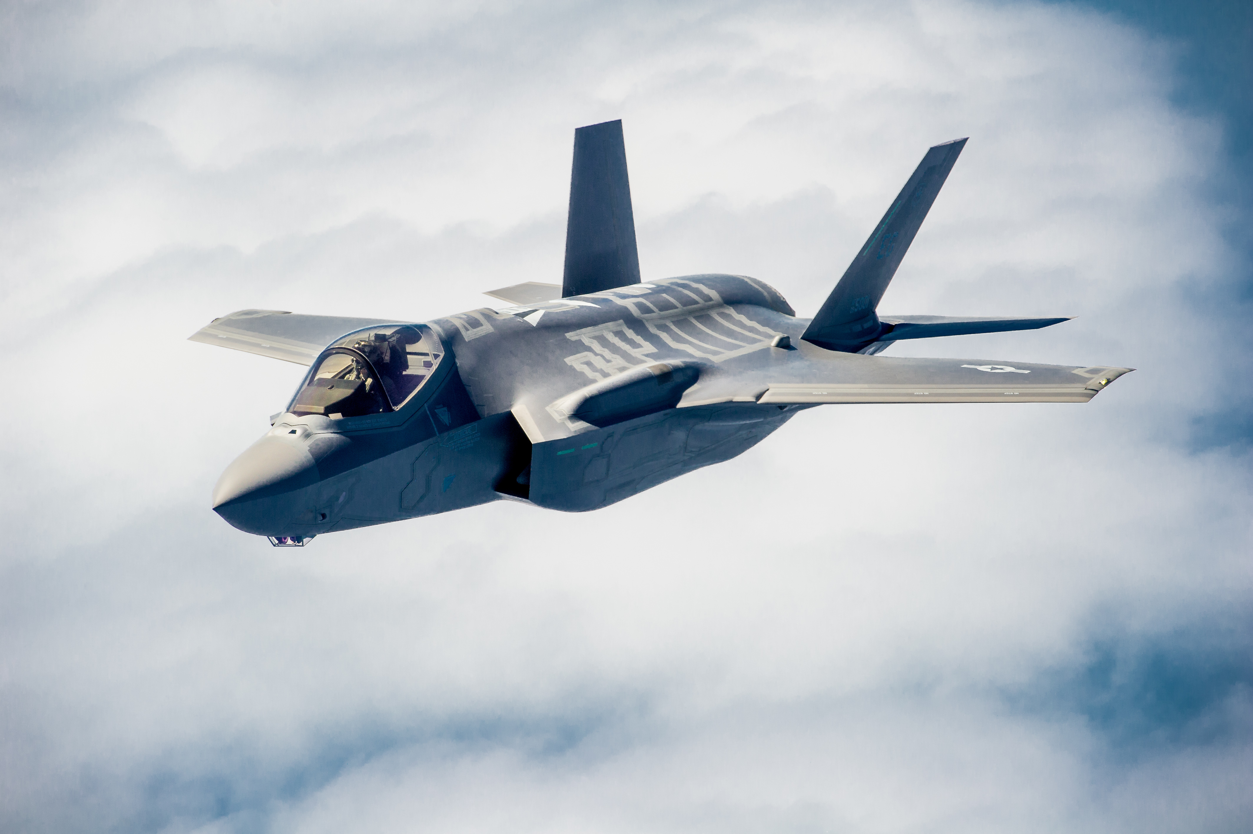 A U.S. Air Force pilot navigates an F-35A Lightning II aircraft assigned to the 58th Fighter Squadron, 33rd Fighter Wing into position to refuel with a KC-135 Stratotanker assigned to the 336th Air Refueling Squadron over the northwest coast of Florida May 16, 2013. The F-35 Integrated Training Center was established at Eglin Air Force Base and was responsible for conducting student pilot training and maintainer training for Airmen, Marines and Sailors responsible for the aircraft.